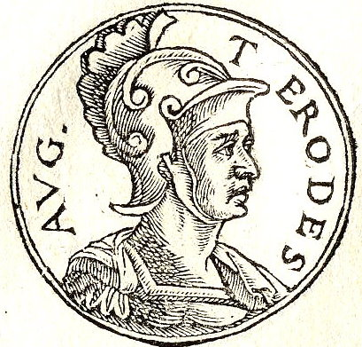 Hairan was elder son of Odaenathus who was a ruler of Palmyra, Syria and later of the short lived Palmyrene Empire.